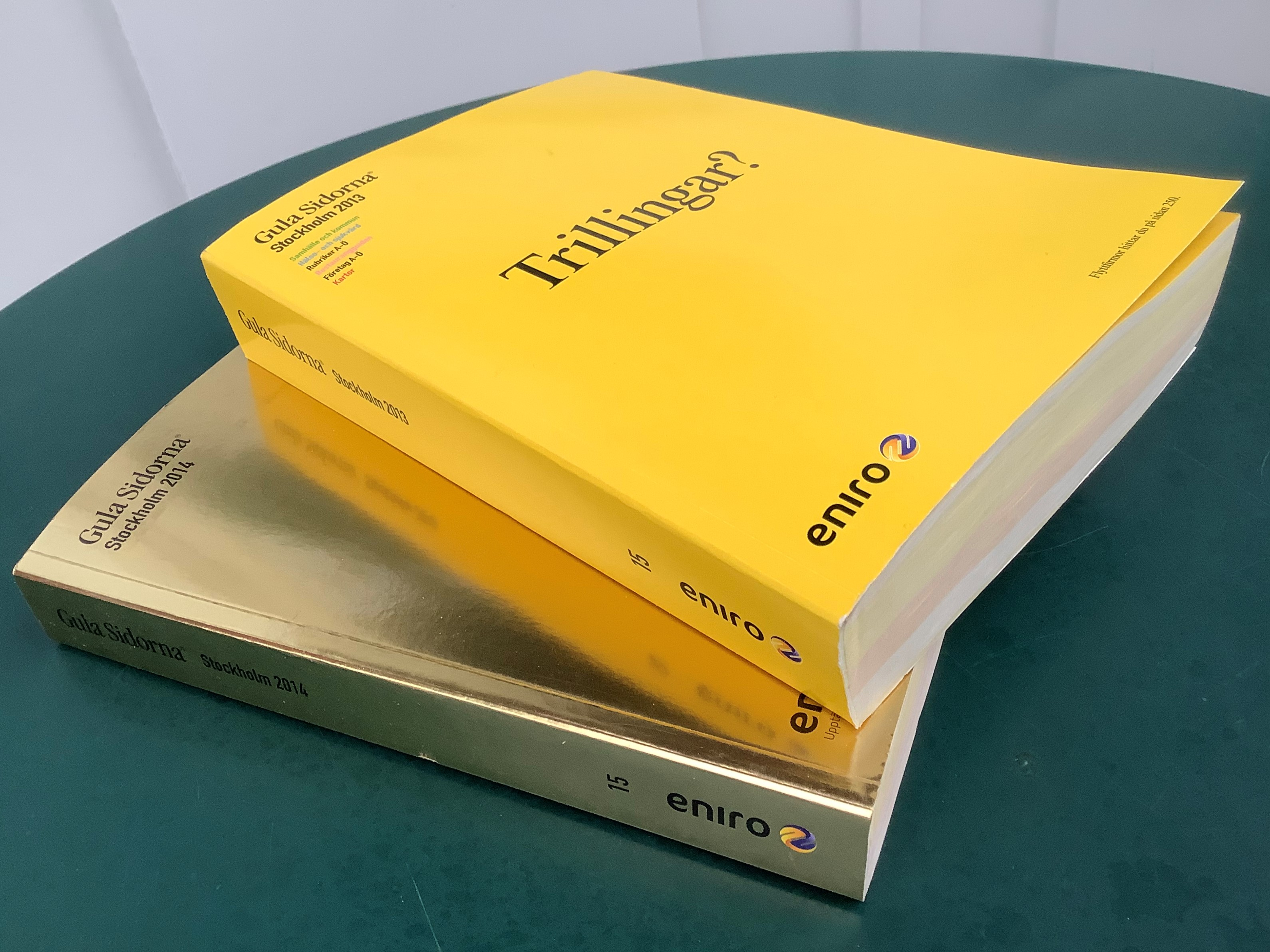 Gula Sidorna - Yellow Pages - Stockholm editions from 2013 and 2014